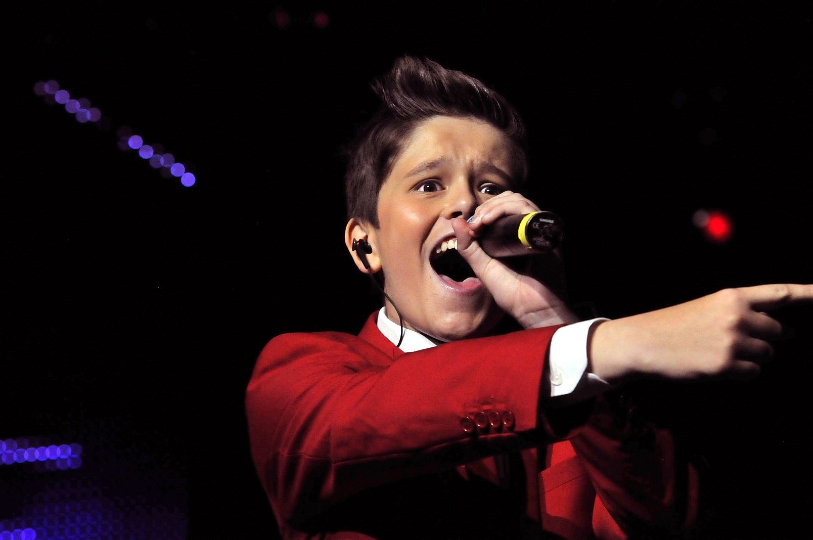 Jai Waetford performing during The X Factor Live Tour.